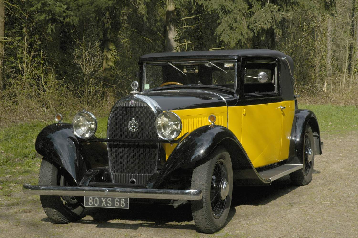 AM 80S, Coach Riviera, 1932